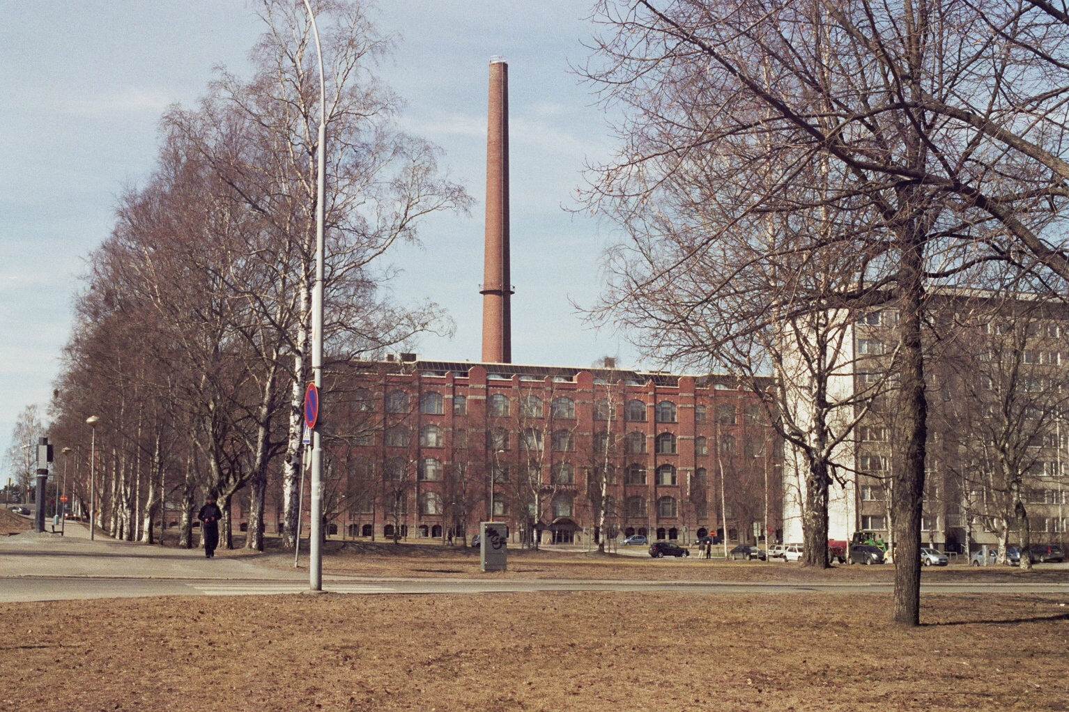 One of the buildings of the former wool mill of Klingendahl in the city of Tampere in Finland. The building was constructed in the early 1900s and was obviously expanded later. The smokestack was a part of the mill's own power station built in the early 1950s. It's over 80 meters high. These days (2009), the buildings of the mill contain at least various offices and apartments.